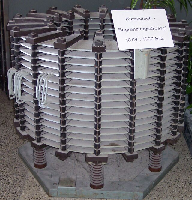 Short-circuit current limiting choke